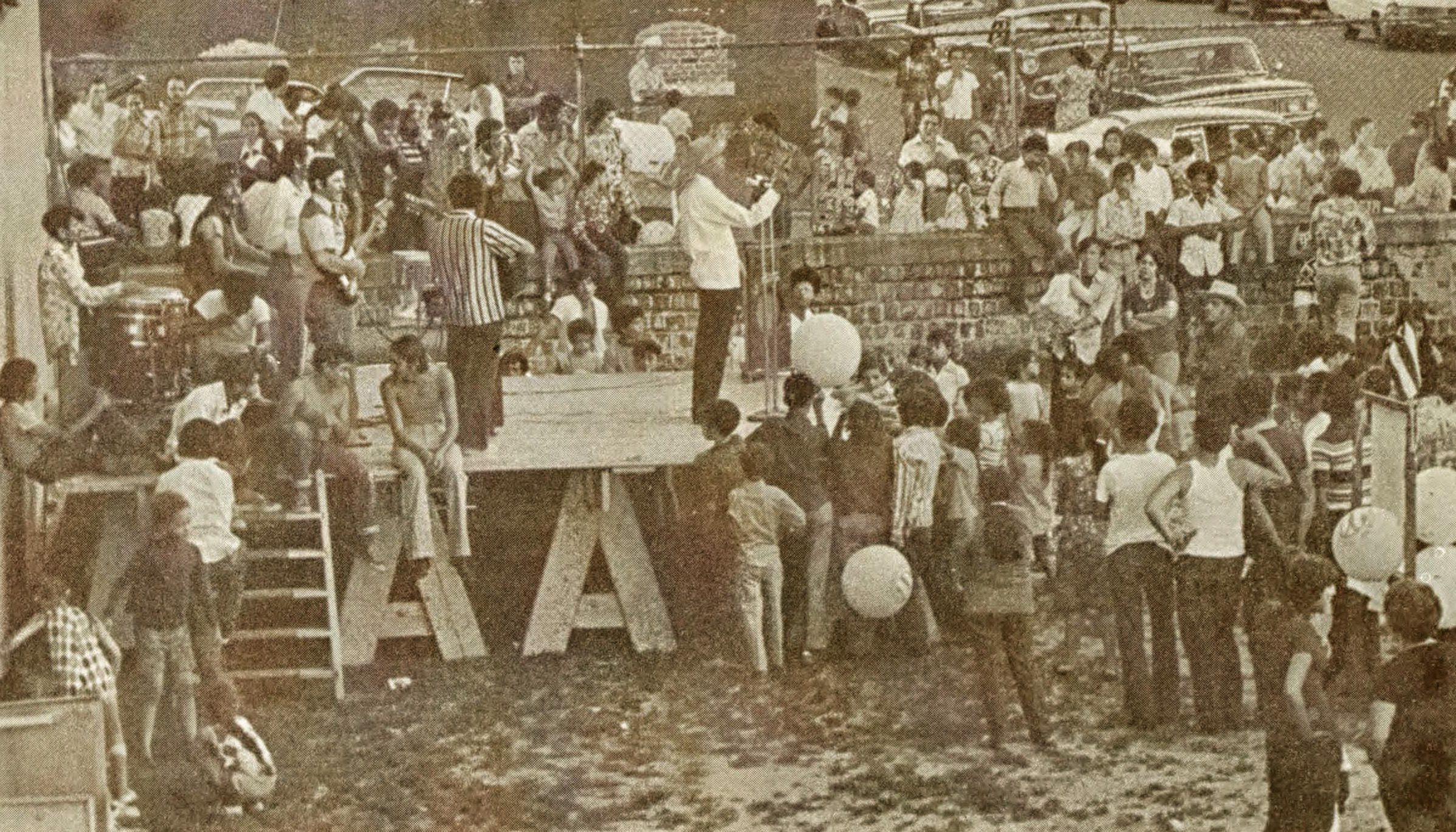 Photo of a Puerto Rican street festival during Holyoke's Centennial celebrations.